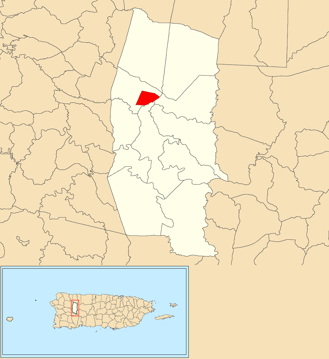 Lares Barrio-pueblo, Lares, Puerto Rico locator map